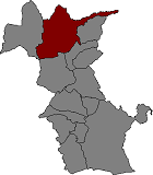 Location of Flix in Ribera d'Ebre